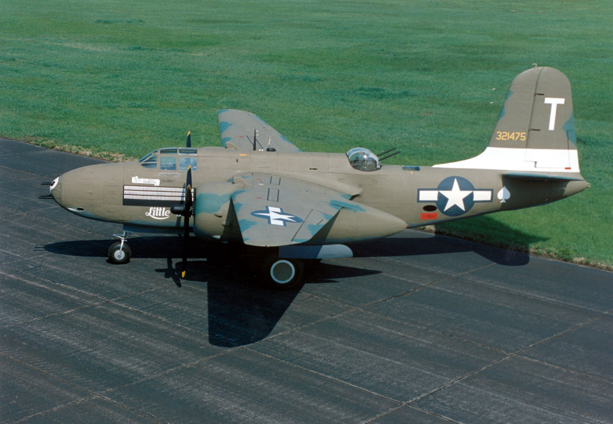 DAYTON, Ohio -- Douglas A-20G Havoc at the National Museum of the United States Air Force.